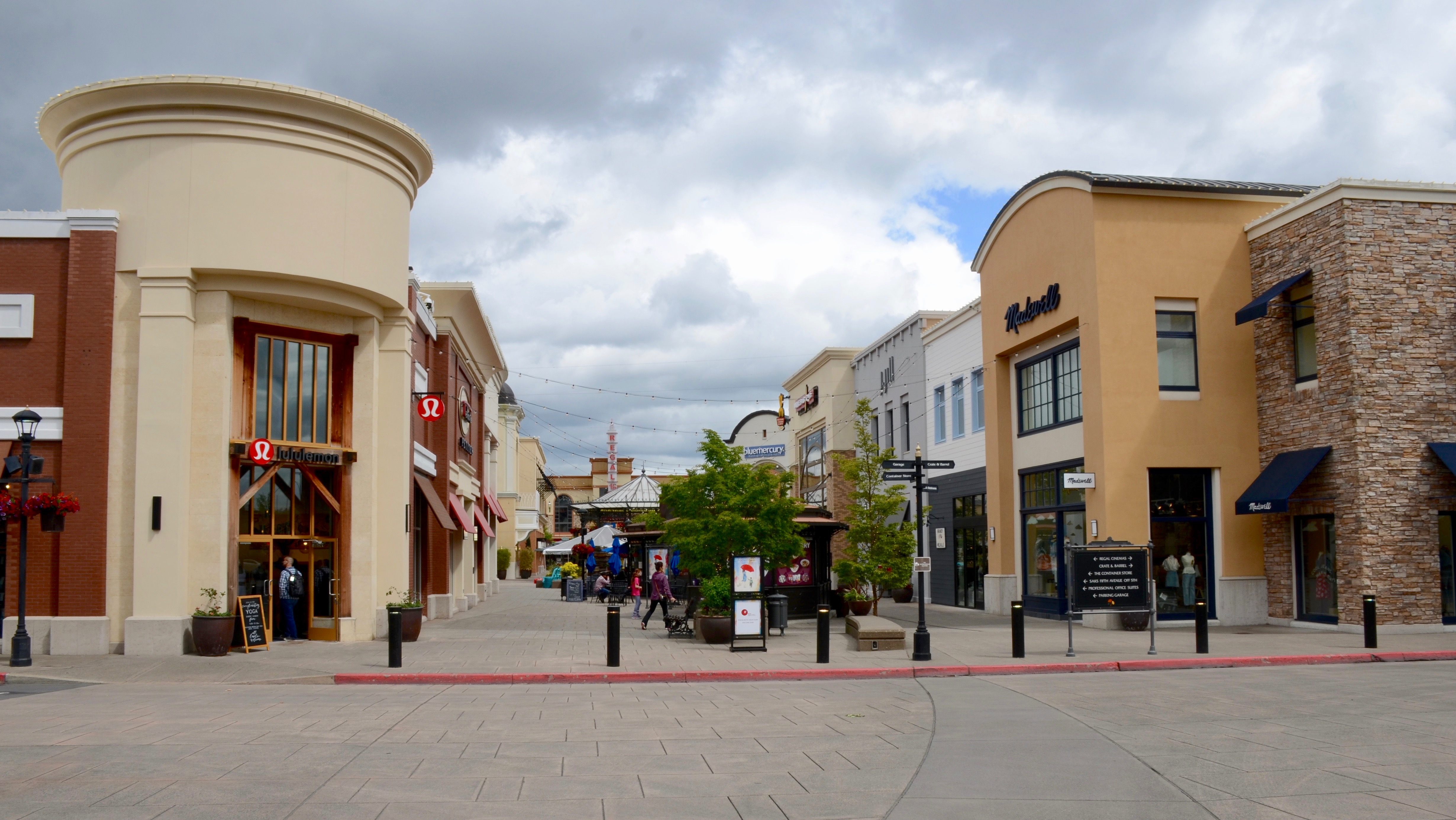 Bridgeport Village shopping mall straddles the boundary between the cities of Tualatin and Tigard, Oregon. This view is looking north near the center of the mall, at a section located within Tualatin, with a Lululemon Athletica store at left and a Madewell store at right. The Regal Cinemas movie theater visible in the distance is located within Tigard; the boundary passes directly in front of it.